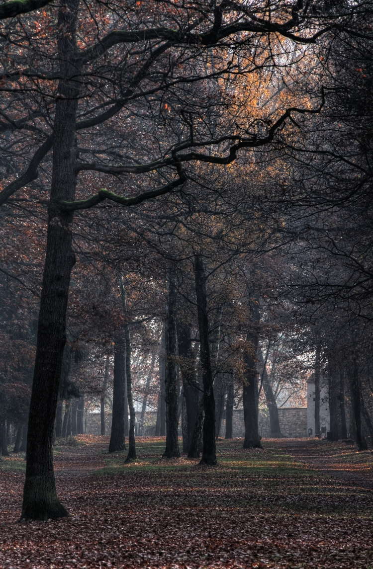 Autumnal forest in Prague (Czech Republic). HDR photography